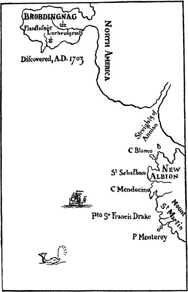 Map of Brobdingnag, for the 1726 edition of Jonathan Swift's Gulliver's Travels (or Travels into several remote nations of the world)